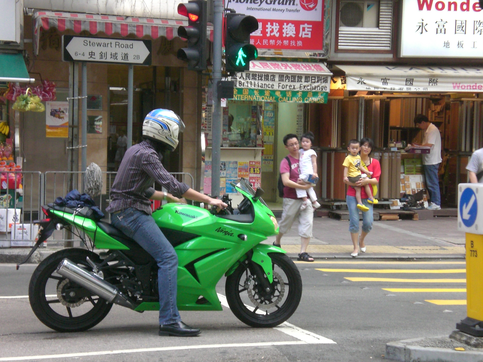 Wanchai Shiluo Road and zh: Lockhart Road Junction